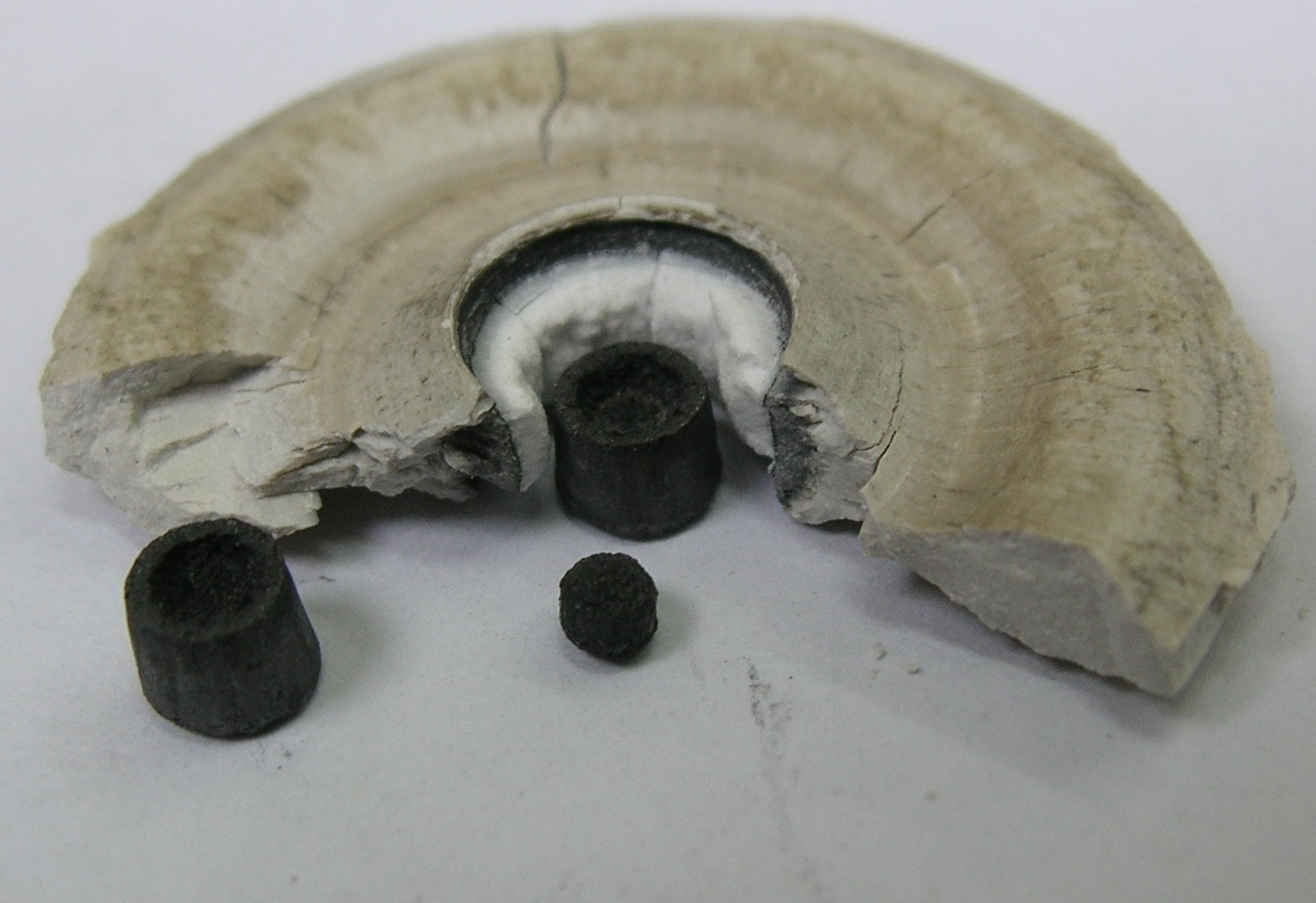 Parts of a high pressure cell after experiment: (1) two parts of a graphite bar (heater), (2) a ball-like sample of boron-doped diamond recovered from the hole in the bar.